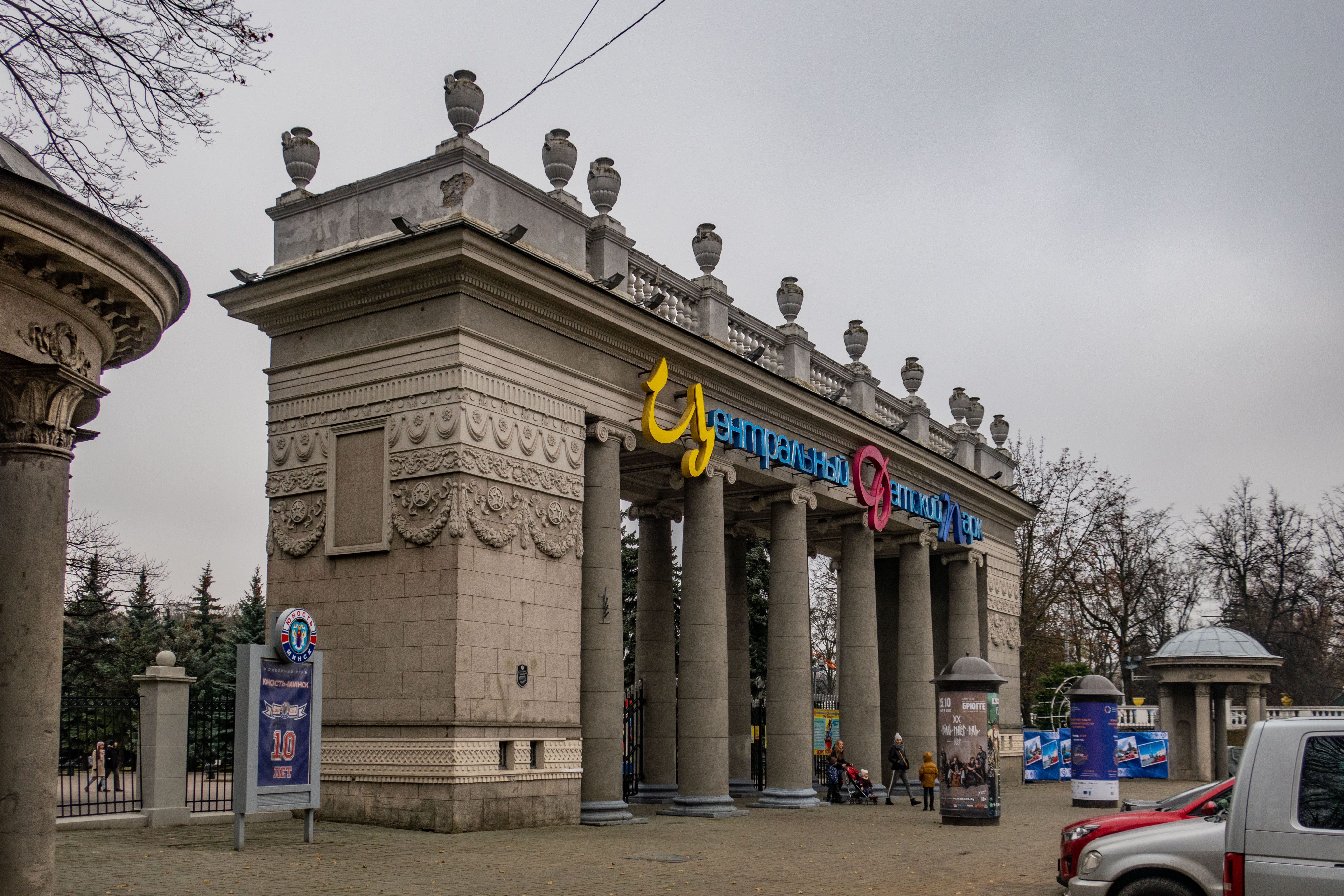 Central Children's Park — Park Horkaha (Gorky). Minsk, Belarus